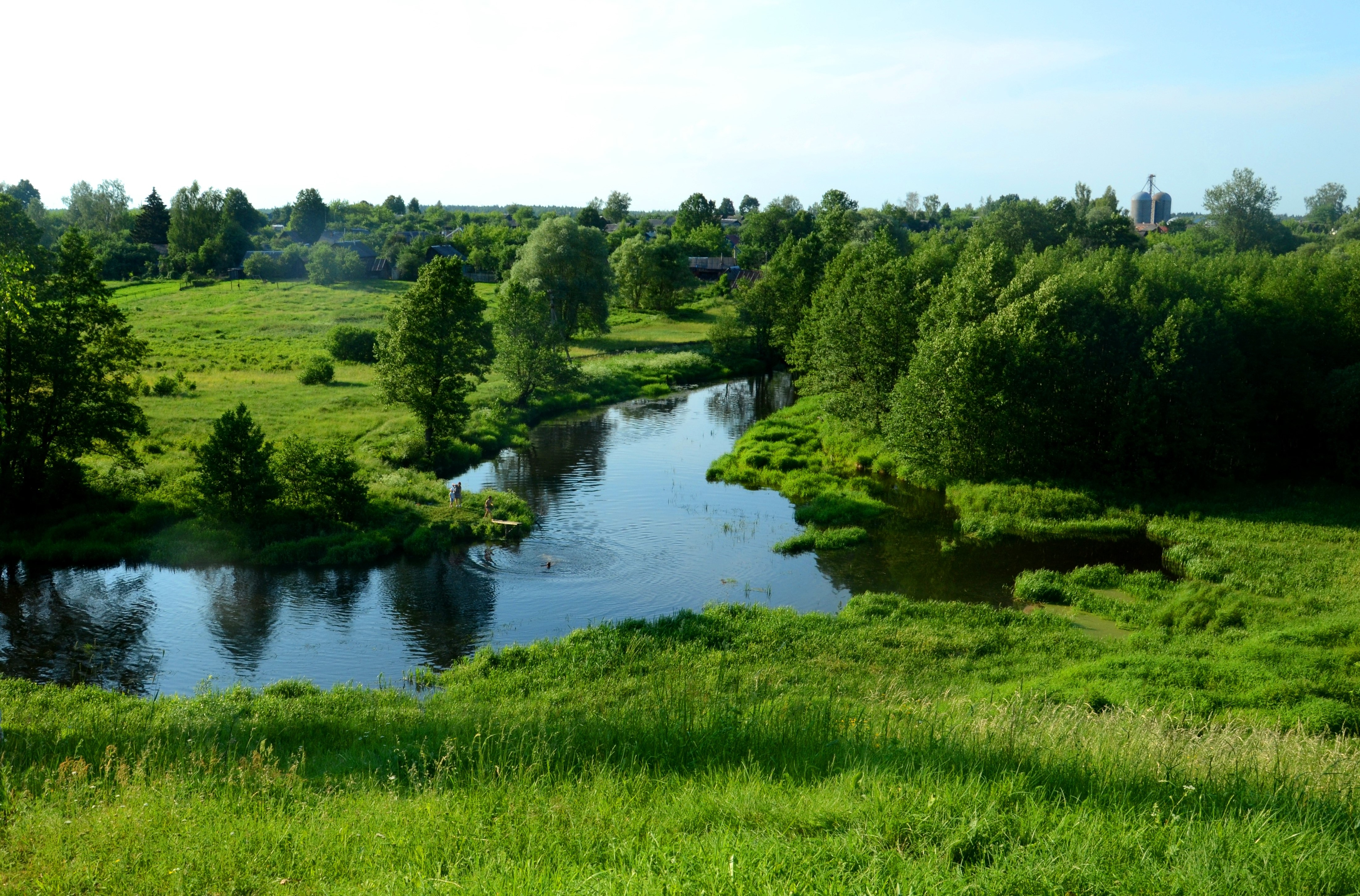 View of the Bobr river from the manor of Ales Pushkin in Bobr village